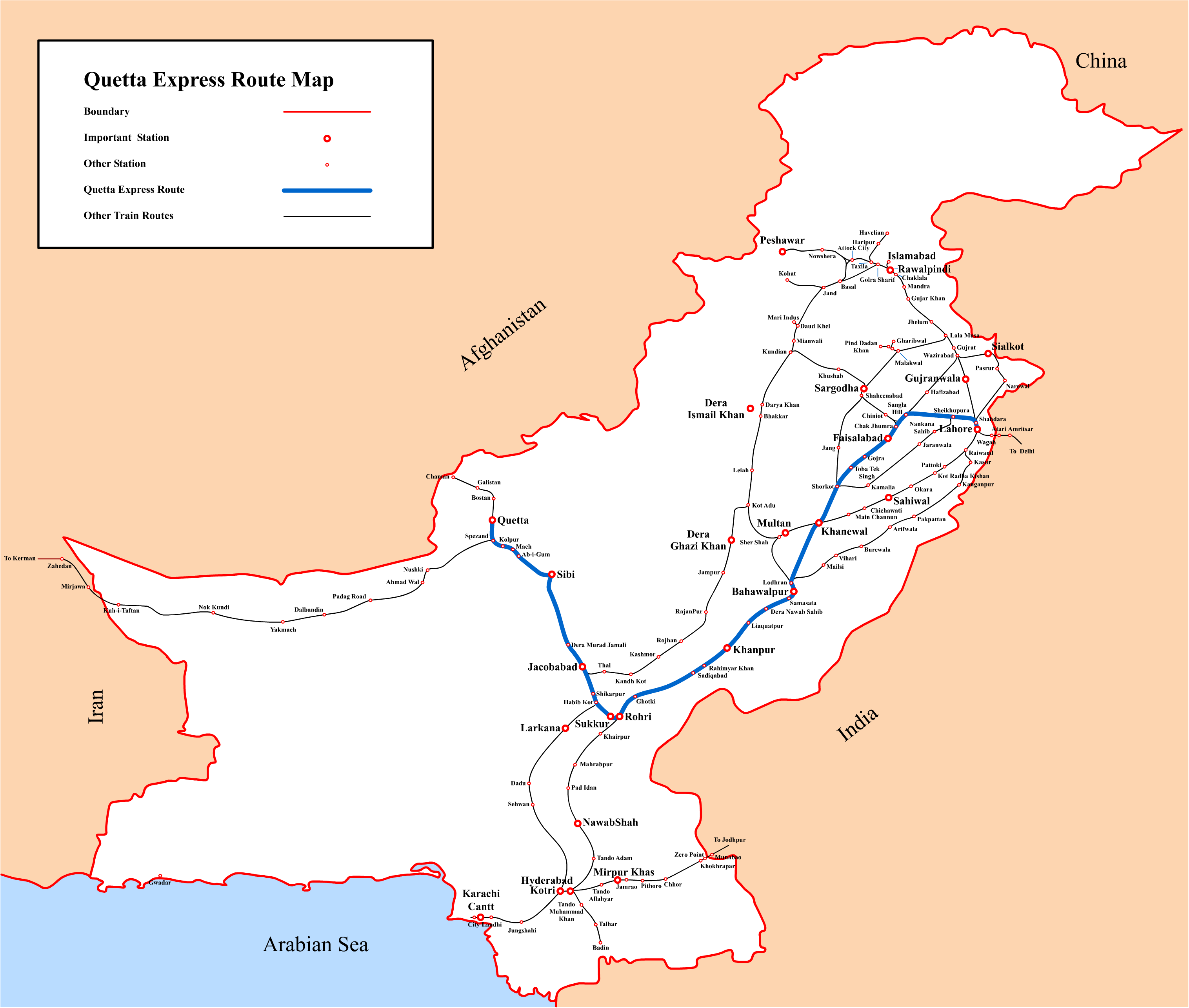 Akbar Express (Previous Quetta Express) route map